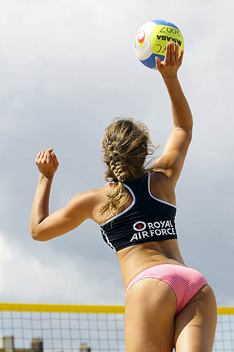 Weymouth Beach Volleyball Classic 2007